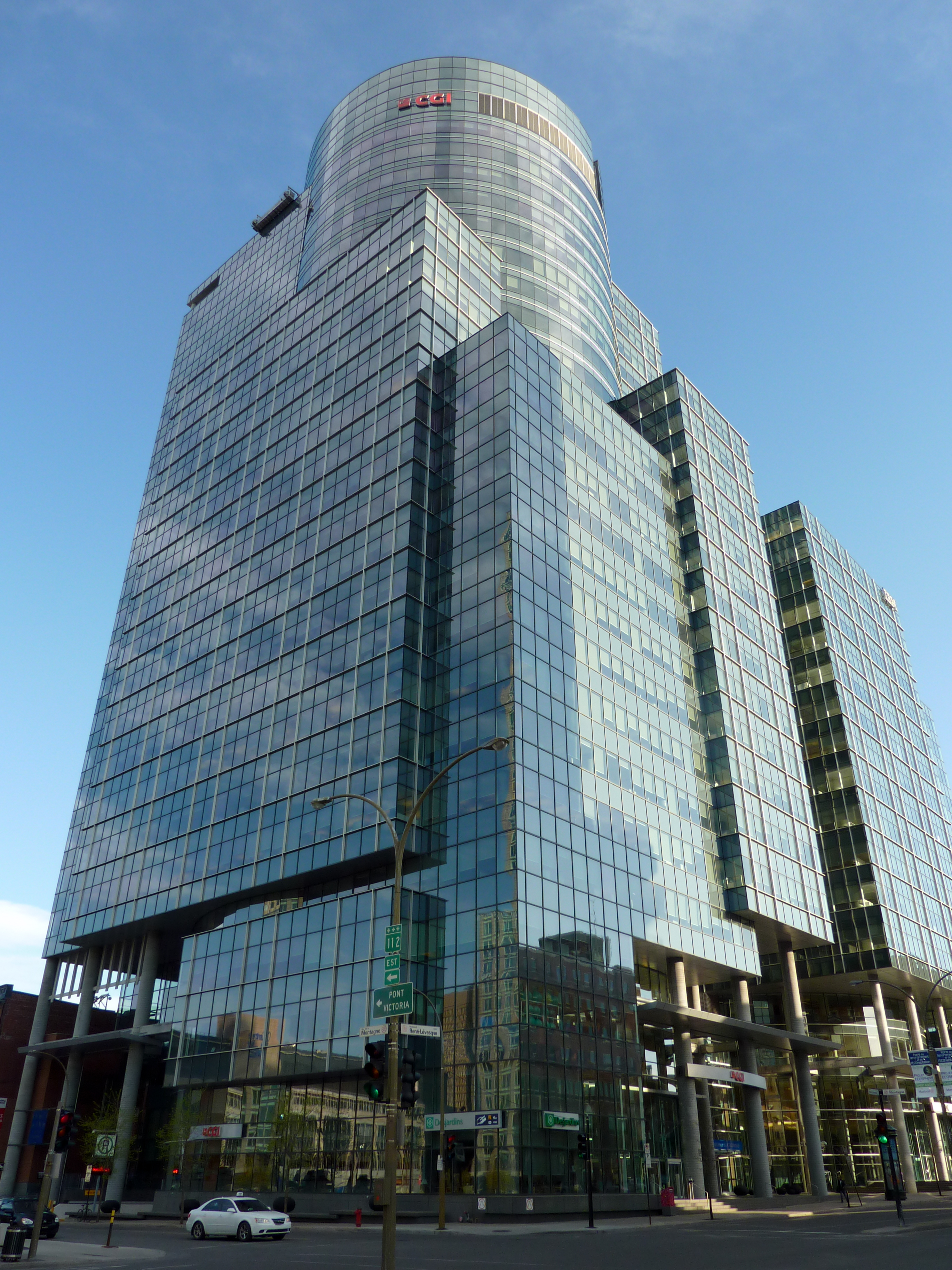 E-Commerce Place on René-Lévesque Boulevard in Montreal, Quebec, Canada.